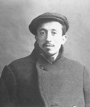 Ilia Zdanevich and Mikhail Le Dentu (photo by Niko Pirosmani, ca. 1916)